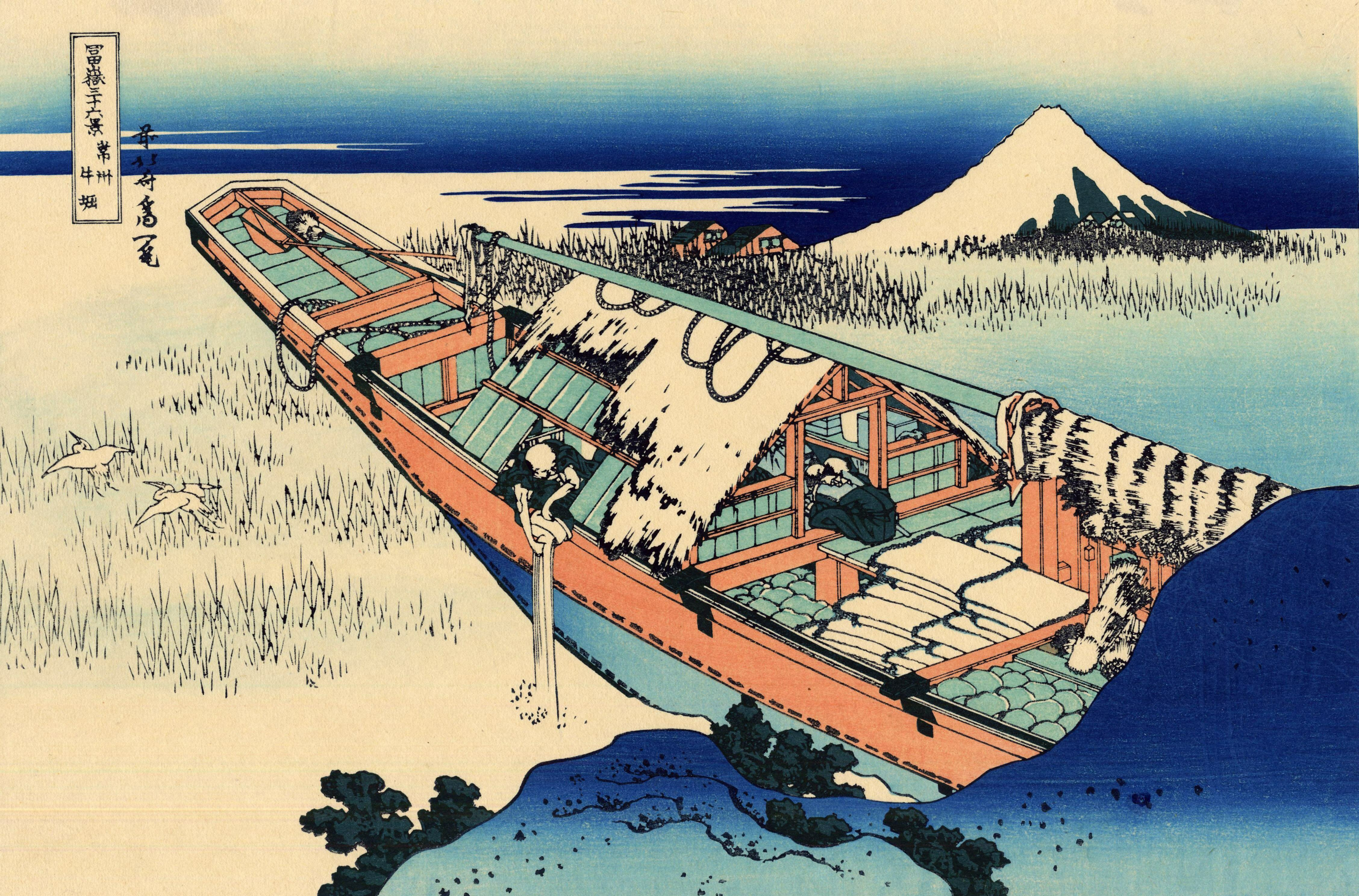 Part of the series Thirty-six Views of Mount Fuji, no. 19.